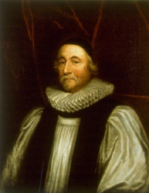 James Ussher, Archbishop of Armagh (4 January 1581–21 March 1656)